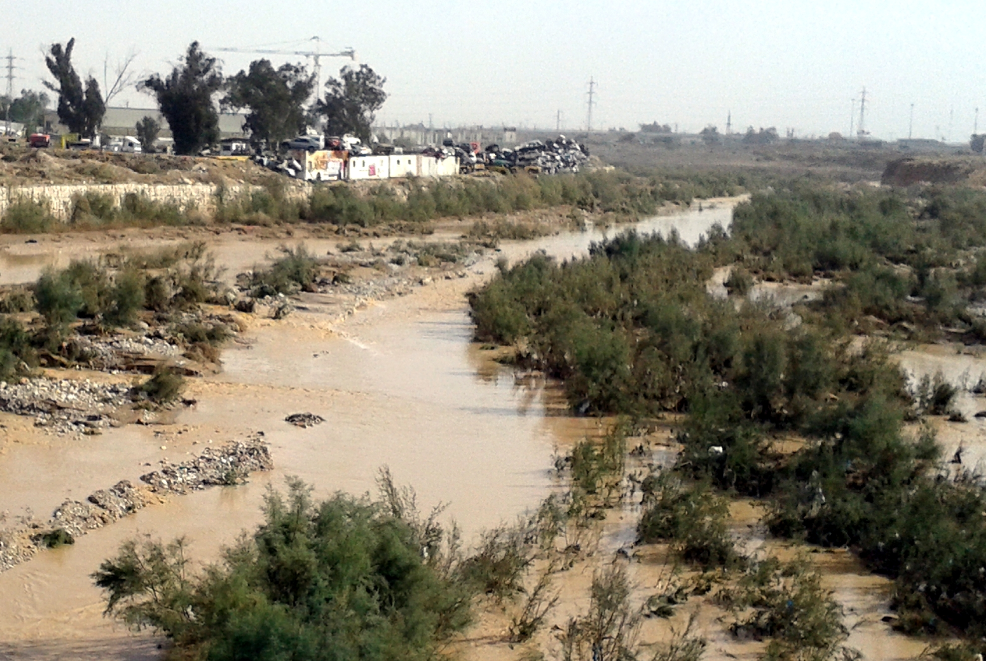 Water flows in Beersheba stream. Beersheba Stream, located in the desert city of Beersheba, is arid most of the year. Rarely, after a rain storm during the winter, there is a strong water flow. Photographed in December 2013